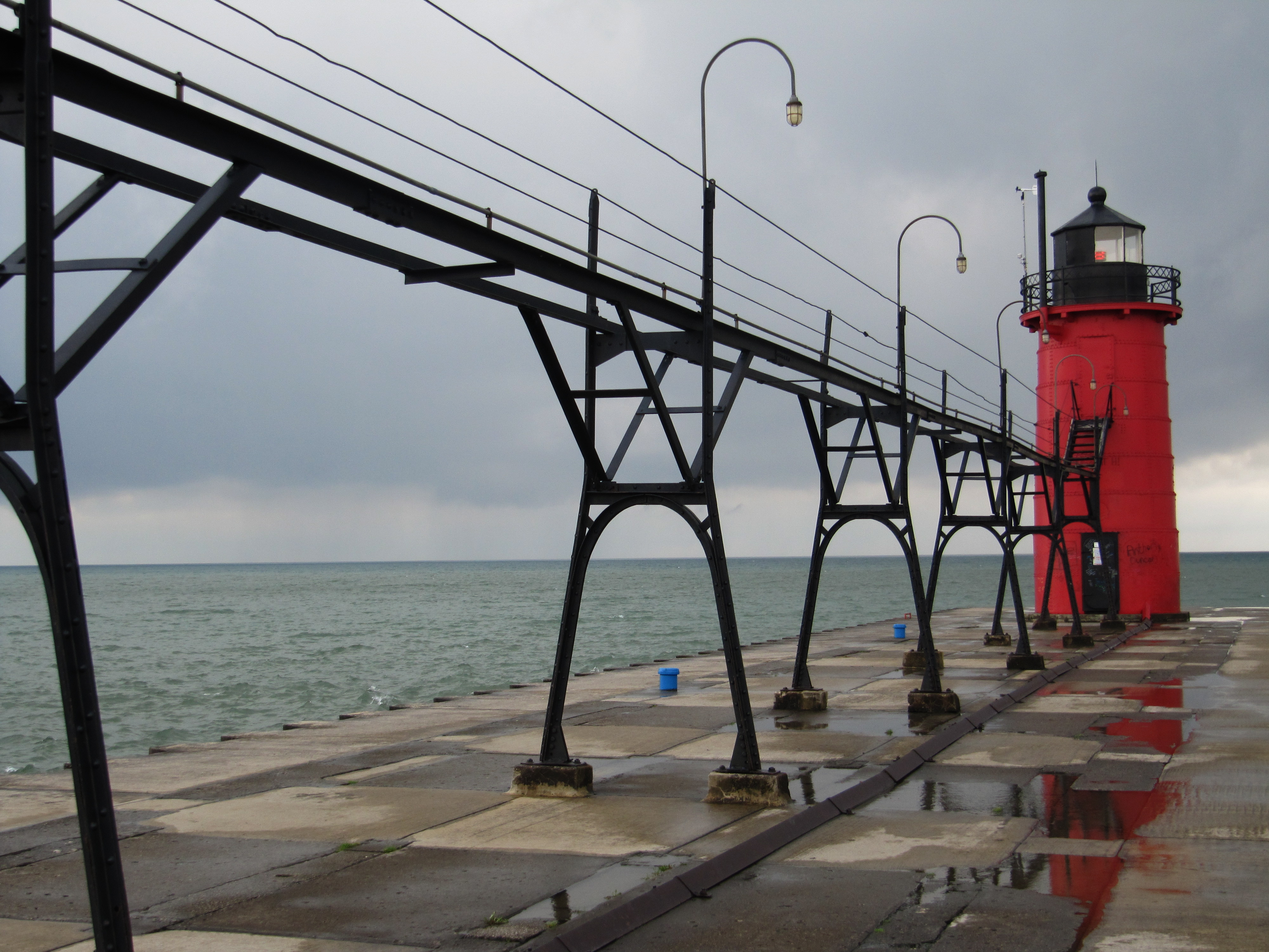 South Haven Light in Michigan, USA